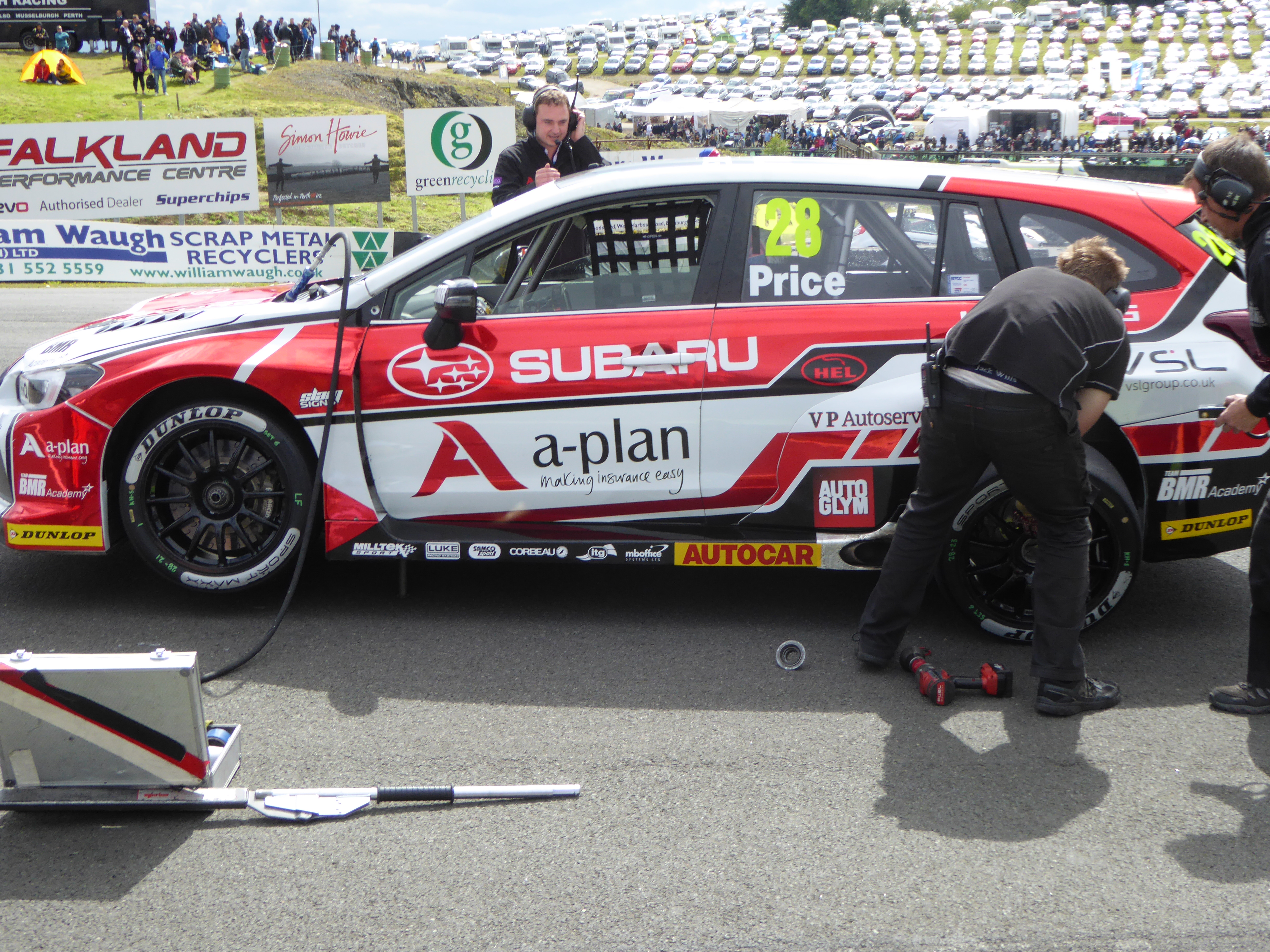 Josh Price (A-Plan Academy), at the Knockhill round of the 2017 British Touring Car Championship.